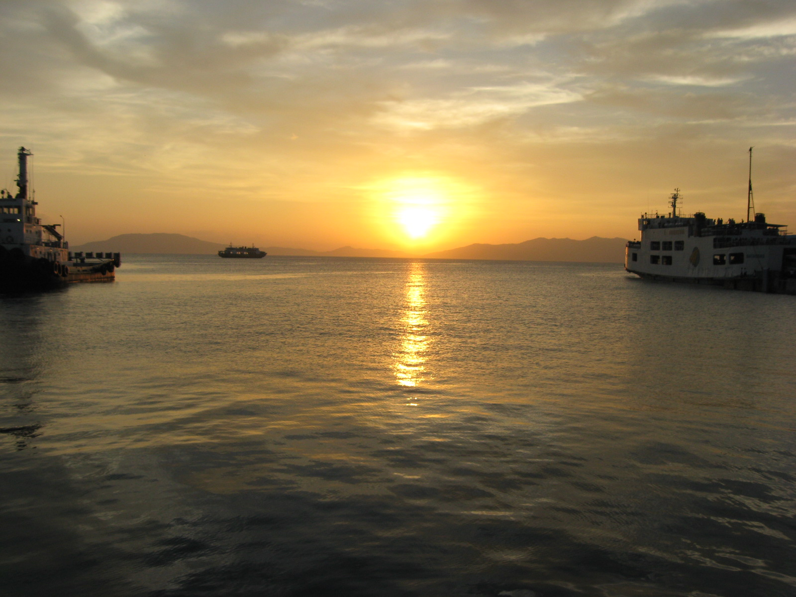 An image of a beautiful sunset taken off the coast of the Philippines while I was there for my work on .